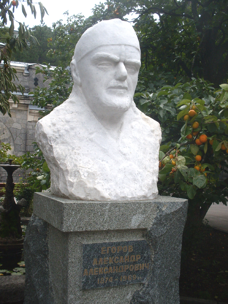 Egorov A.A. monument at Massandra Winery (Crimea, Ukraine)